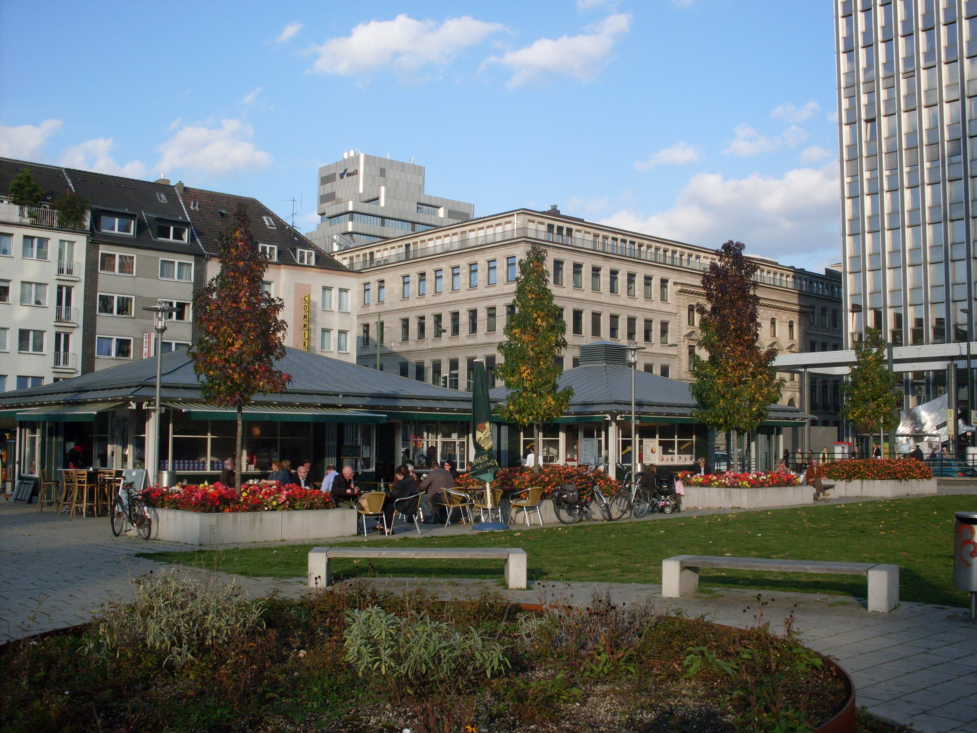 Duesseldorf (Borough Unterbilk), Kirchplatz